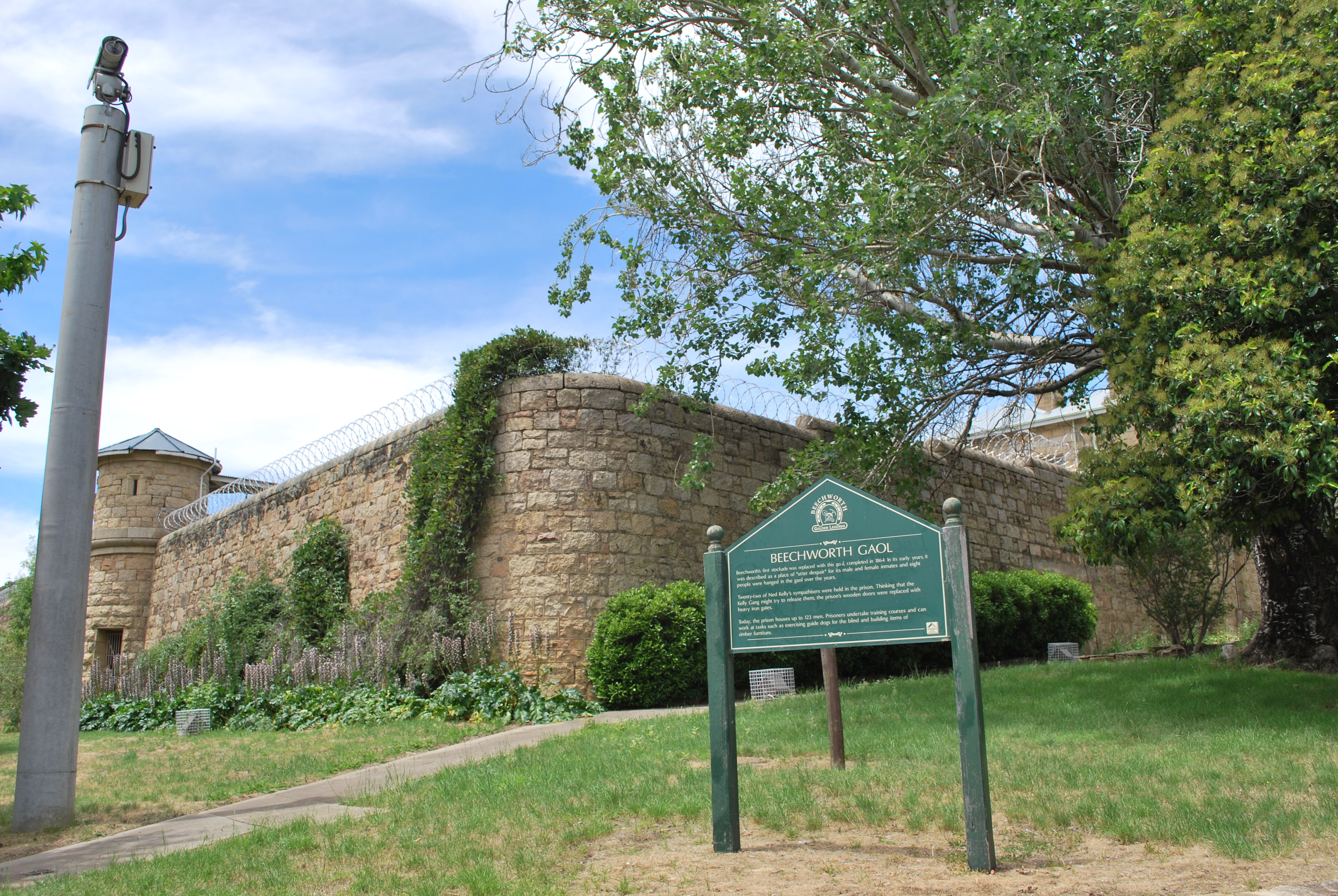 HM Prison Beechworth at Beechworth, Victoria